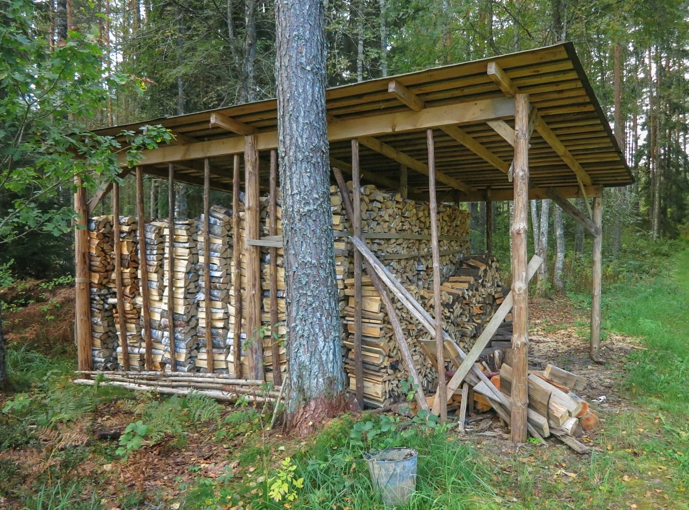 A year’s firewood for one-family house and sauna in Estonia